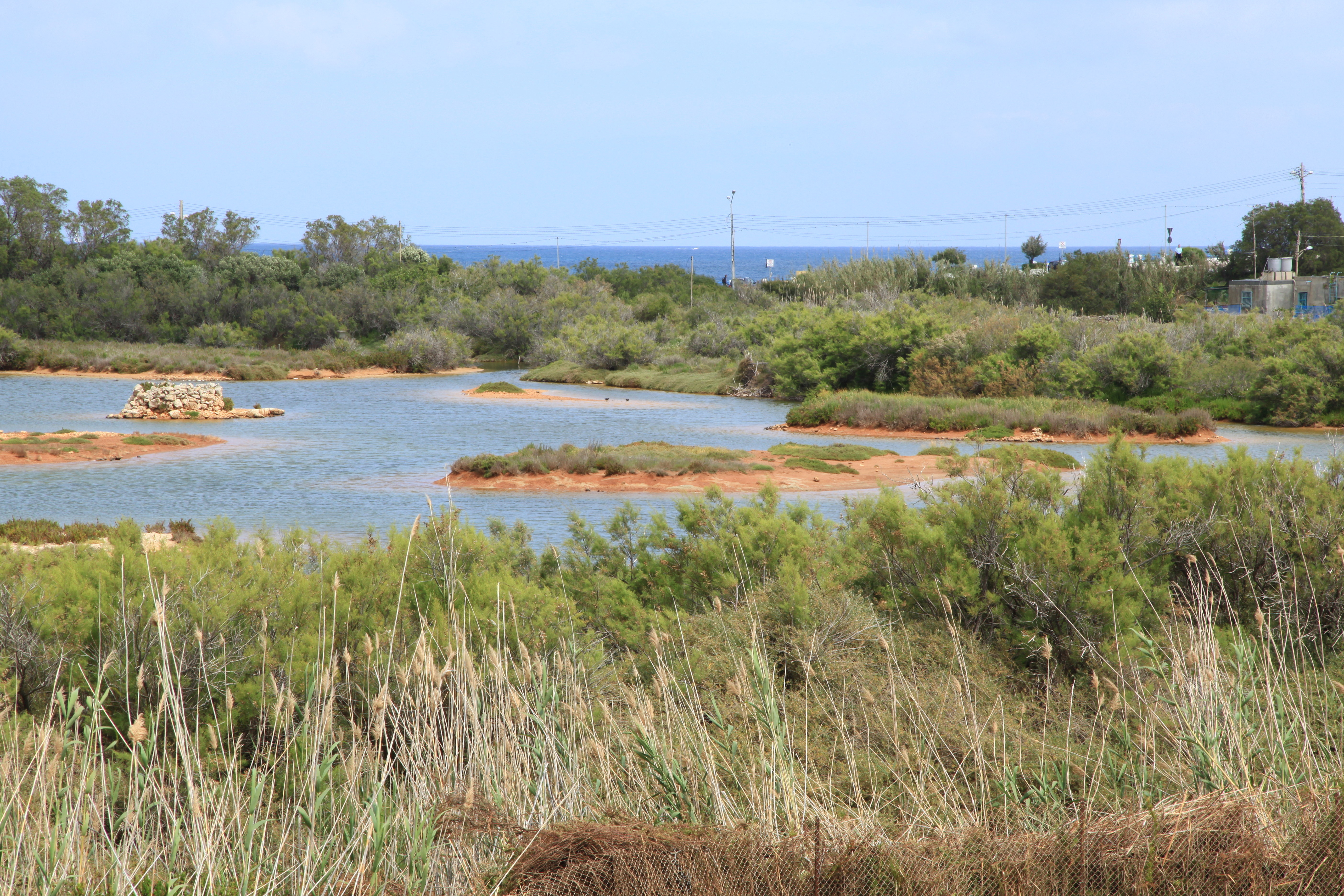 Ghadira Nature Reserve, restricted area within the L-Inħawi tal-Għadira at Triq il-Marfa in Mellieħa, Malta